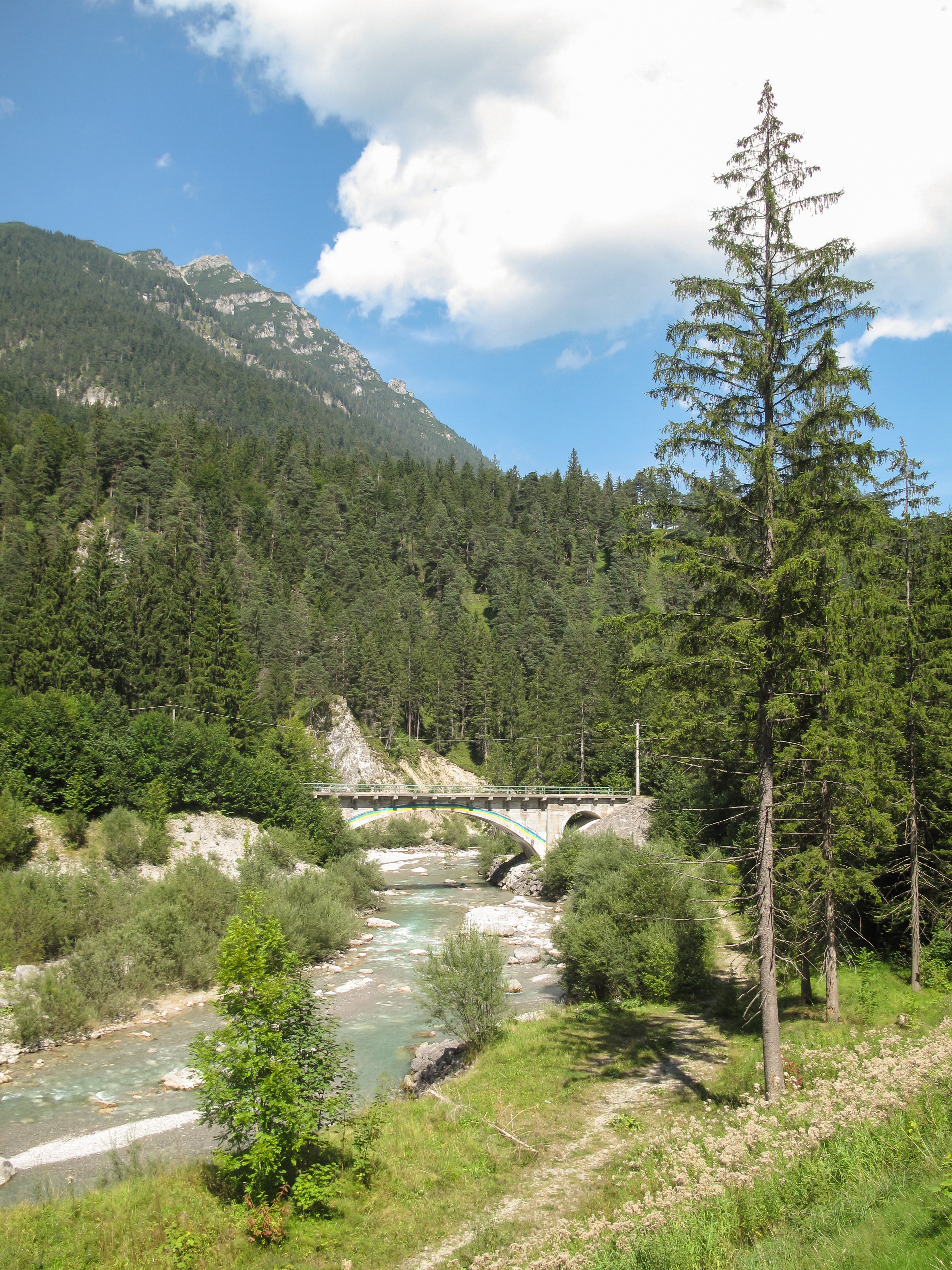 between the border and Grainau, view from the road